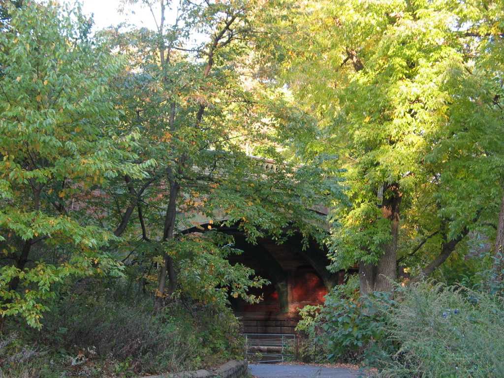 TErrace bridge hidden beyond the greenery